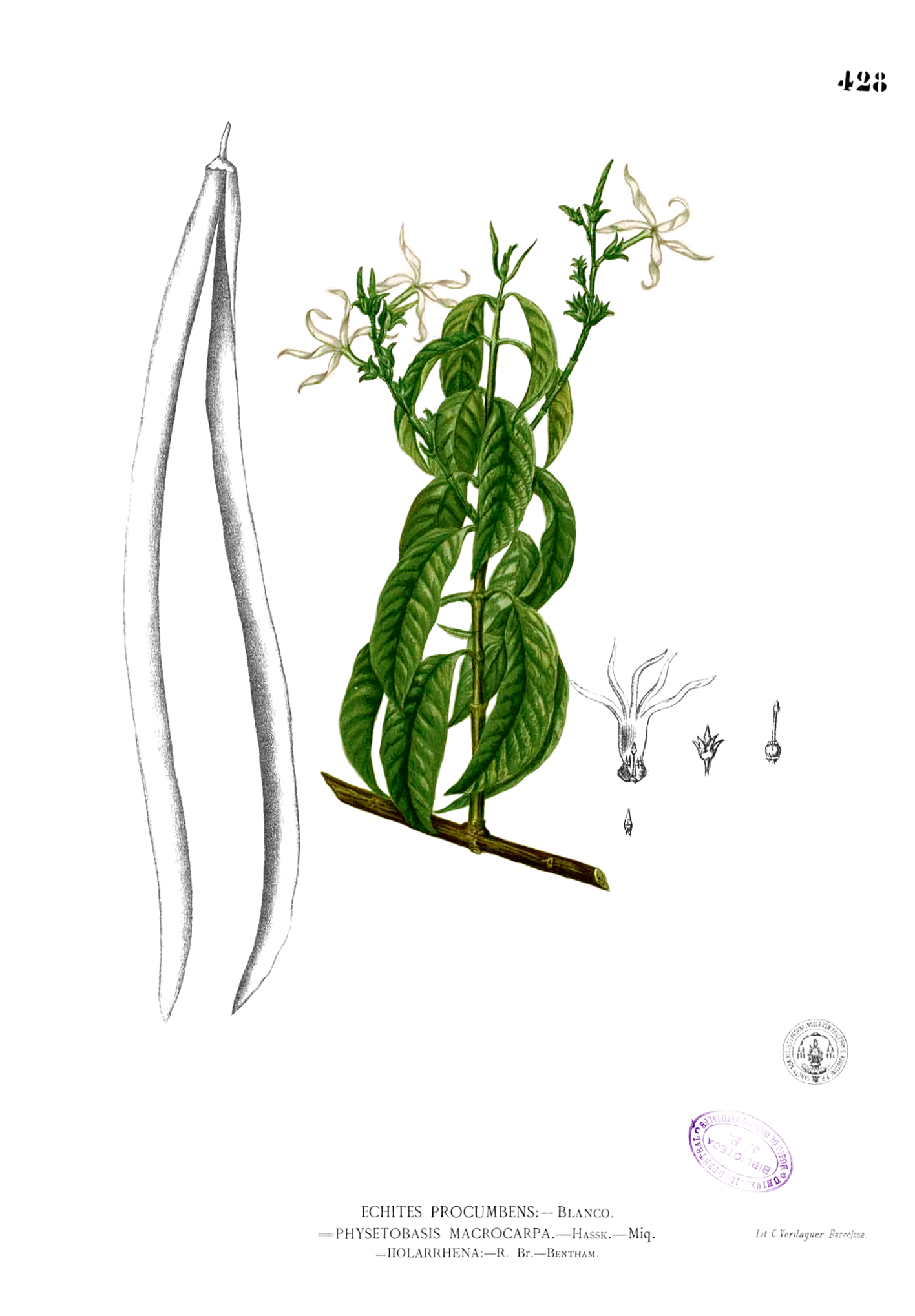 Plate from book